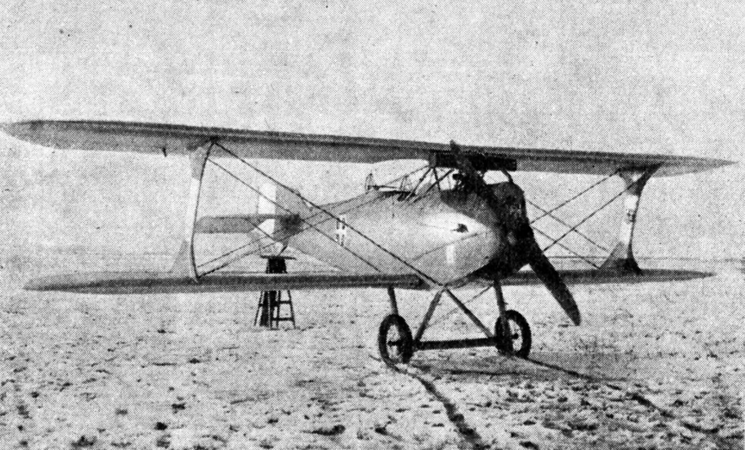 Fizir Maybach photo from L'Aéronautique March,1926